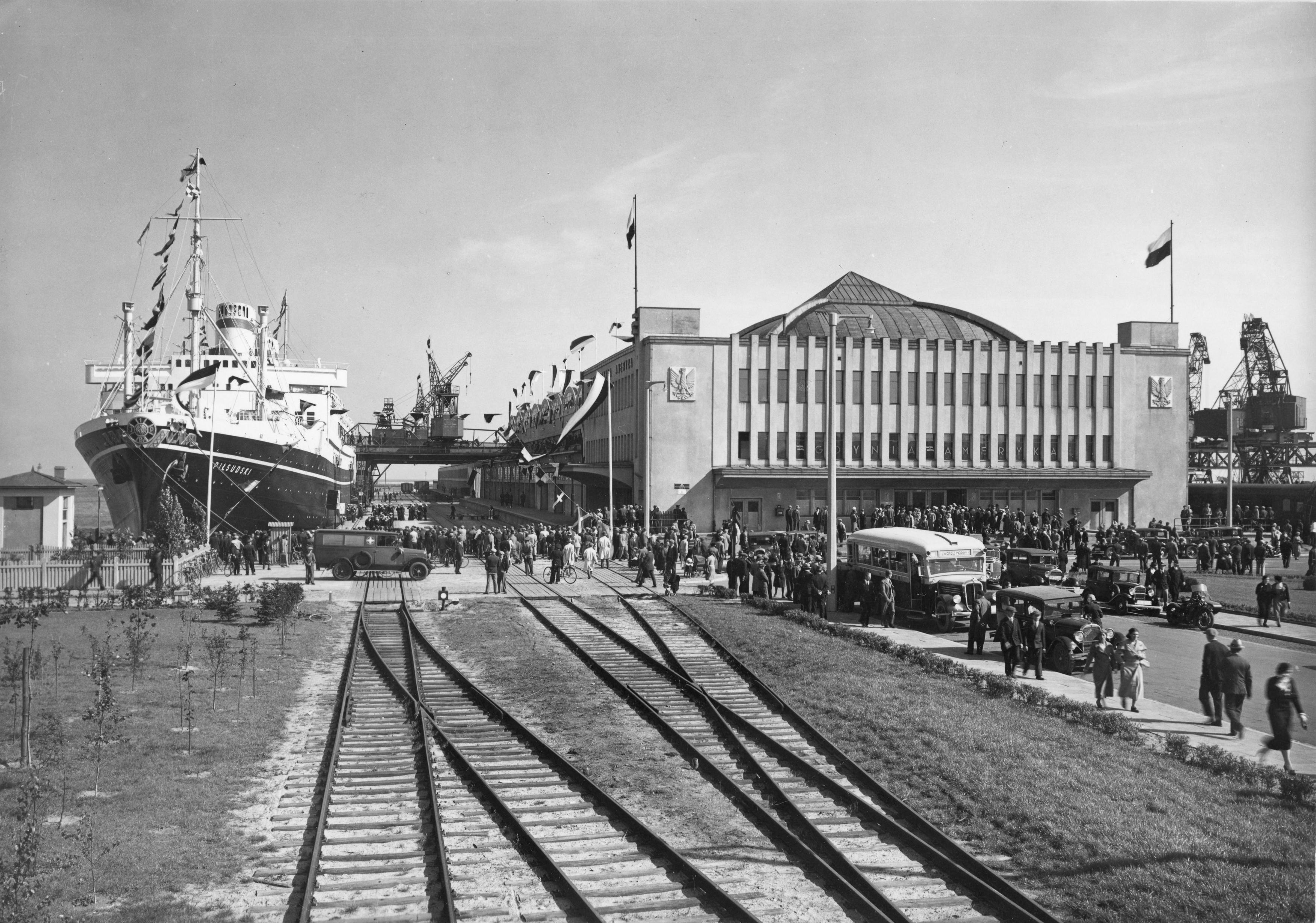 MS Piłsudski at the transatlantic terminal in Gdynia